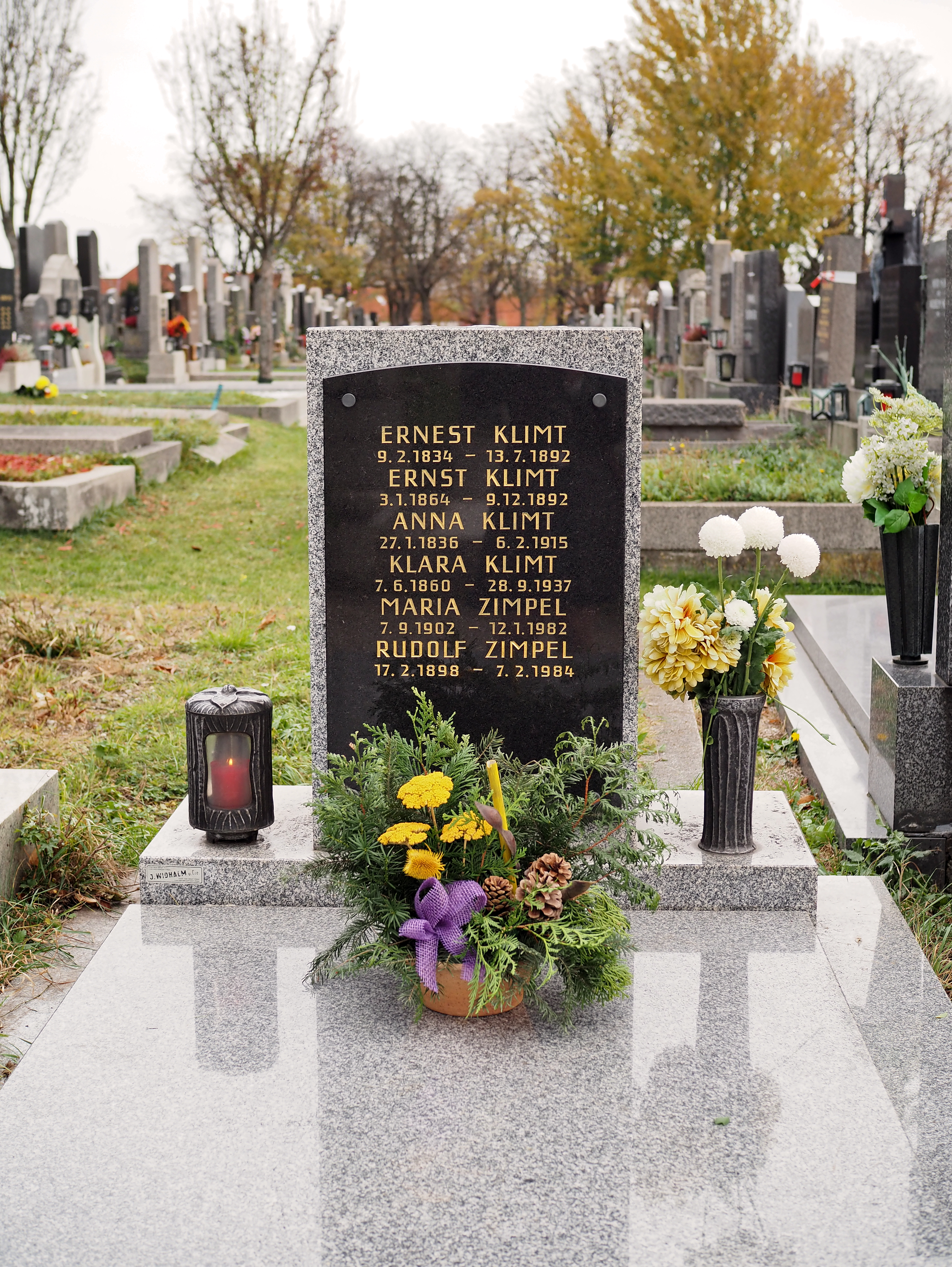 Grave of Ernst Klimt (painter; 1864–1892), his parents Ernest (Ernst) Klimt (1834–1892) and Anna Klimt (née Finster; 1836–1915), his sister Klara Klimt (1860–1937) and other family members. Baumgarten Cemetery, 1140 Vienna (group T, No. 1929). Ernst was the brother, Ernest (Ernst) and Anna were the parents and Klara was the sister of Gustav Klimt.